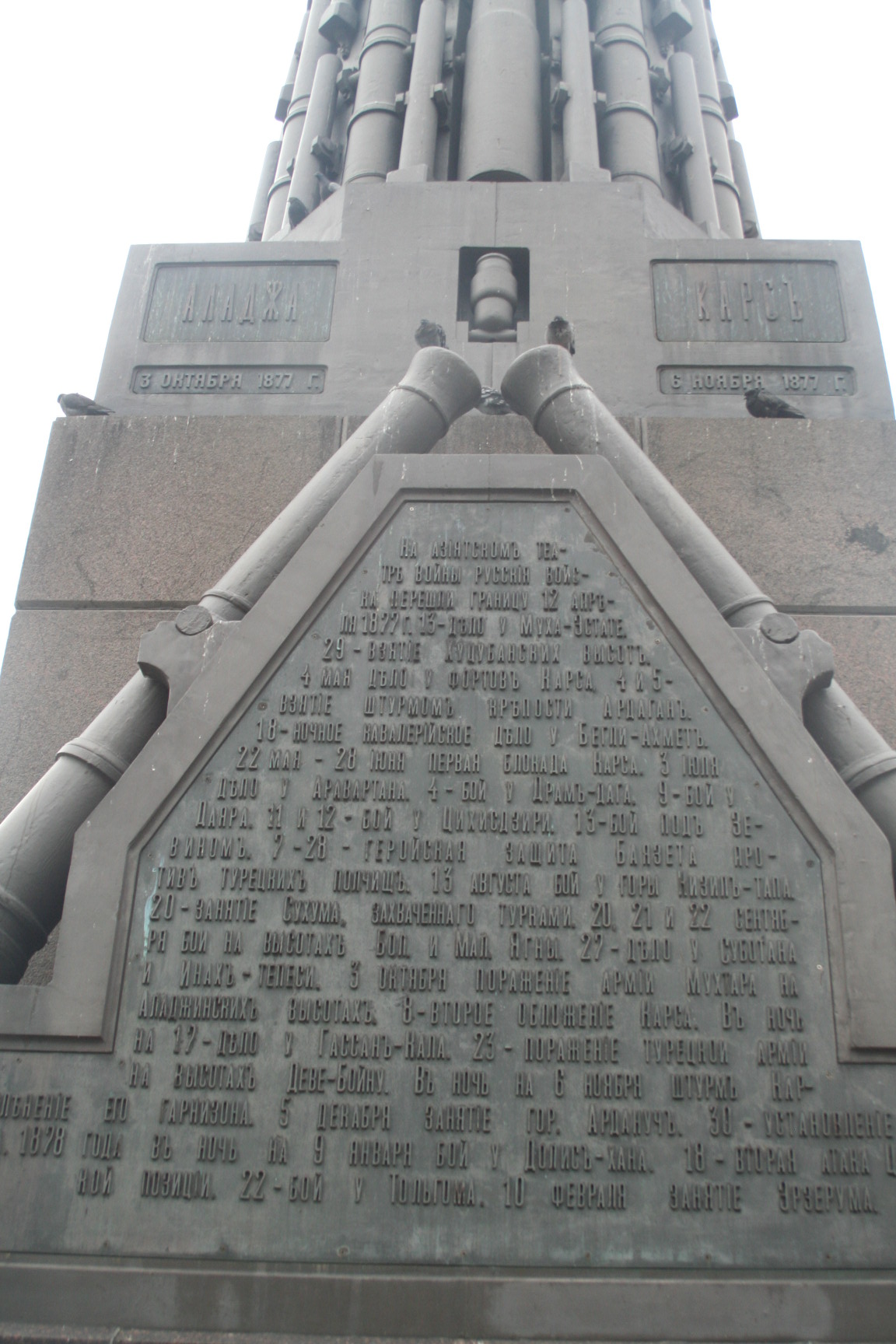 Column of Glory (Saint Petersburg). Southern side